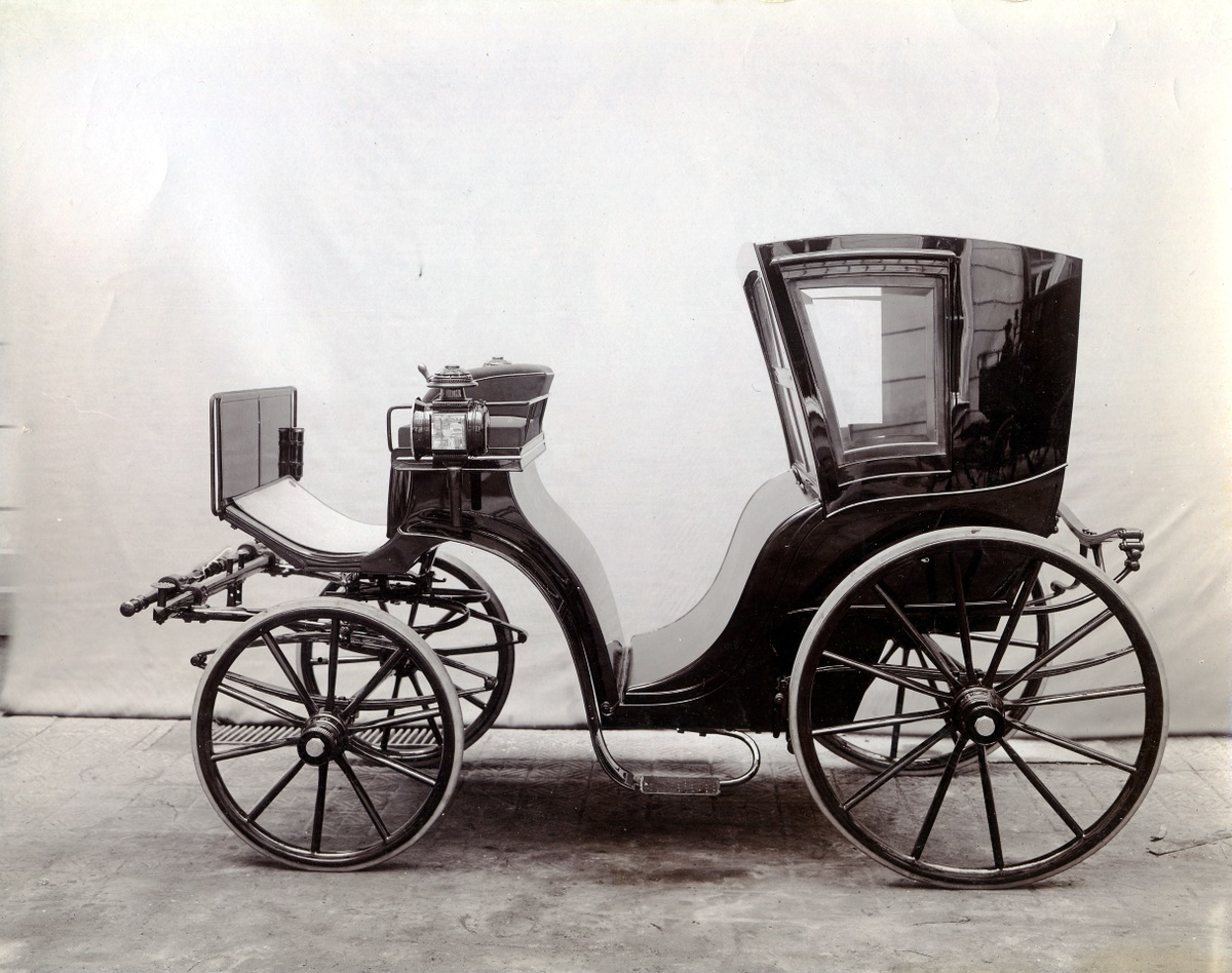 Carriage from Lohner in Vienna / Austria / European Union. Perhaps a photograph made by the factory. In the 1890s the carriages were still made in the district Alsergrund.